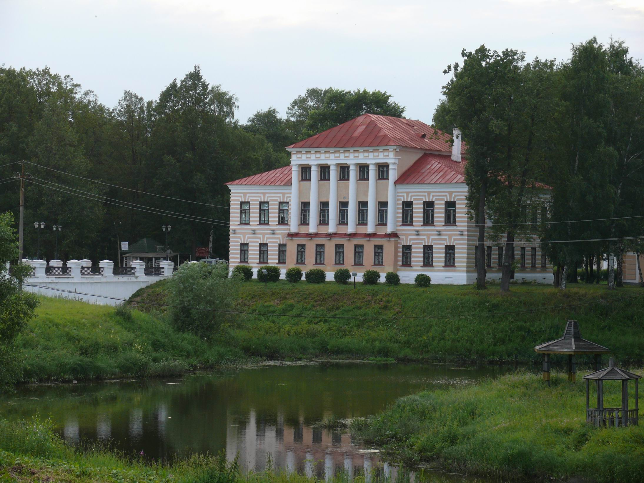 Building of City Duma in Uglich